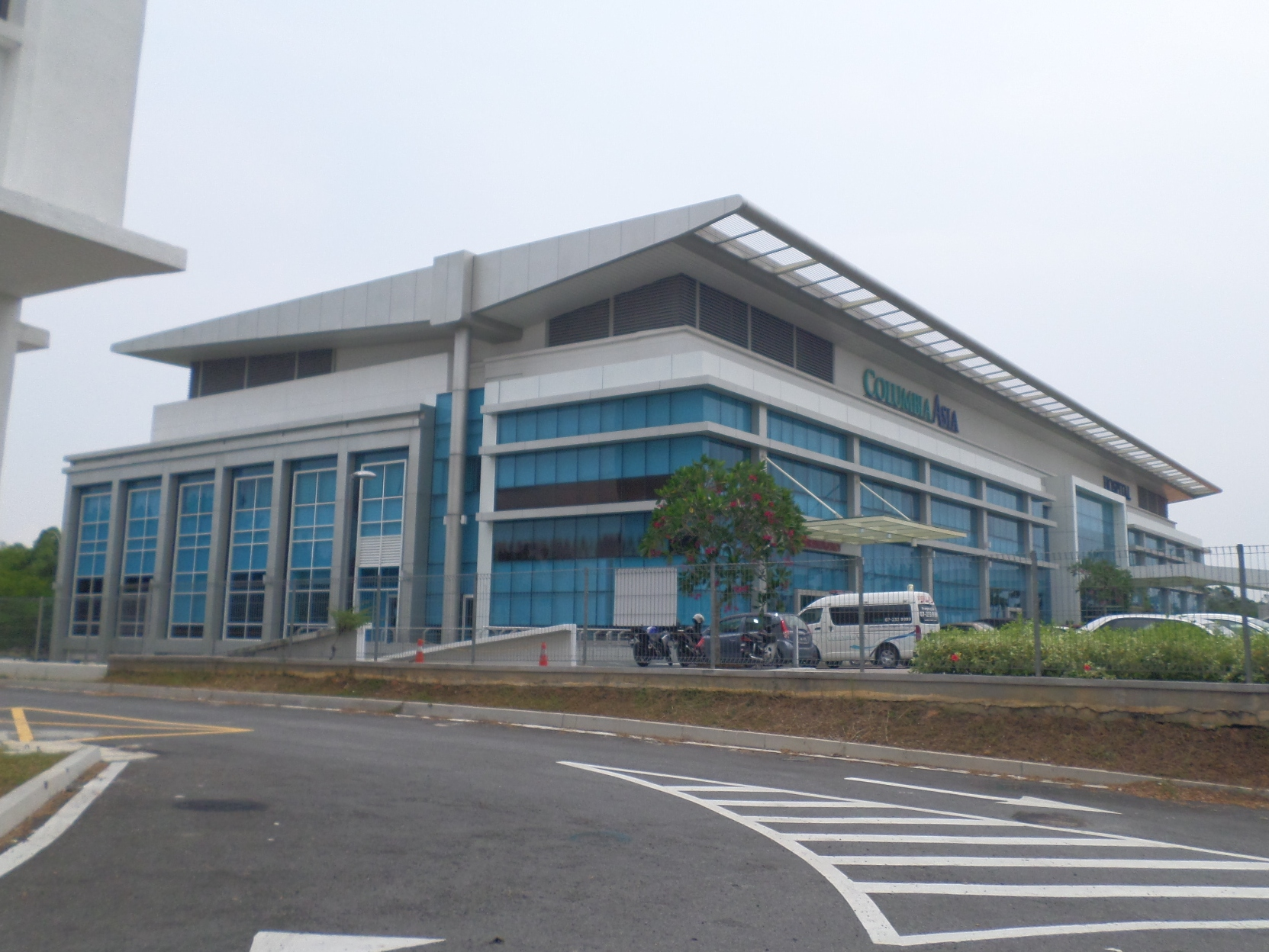 Columbia Asia Hospital, Iskandar Puteri, Johor Bahru, Johor, Malaysia